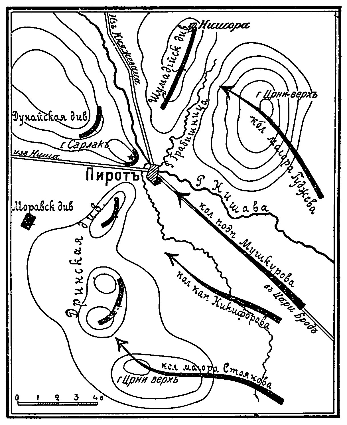 The Battle of Pirot (Bulgarian: Битка при Пирот or Пиротско сражение) was a battle between the Bulgarian Western Corps and the Serbian Nišava Army during the Serbo-Bulgarian War.